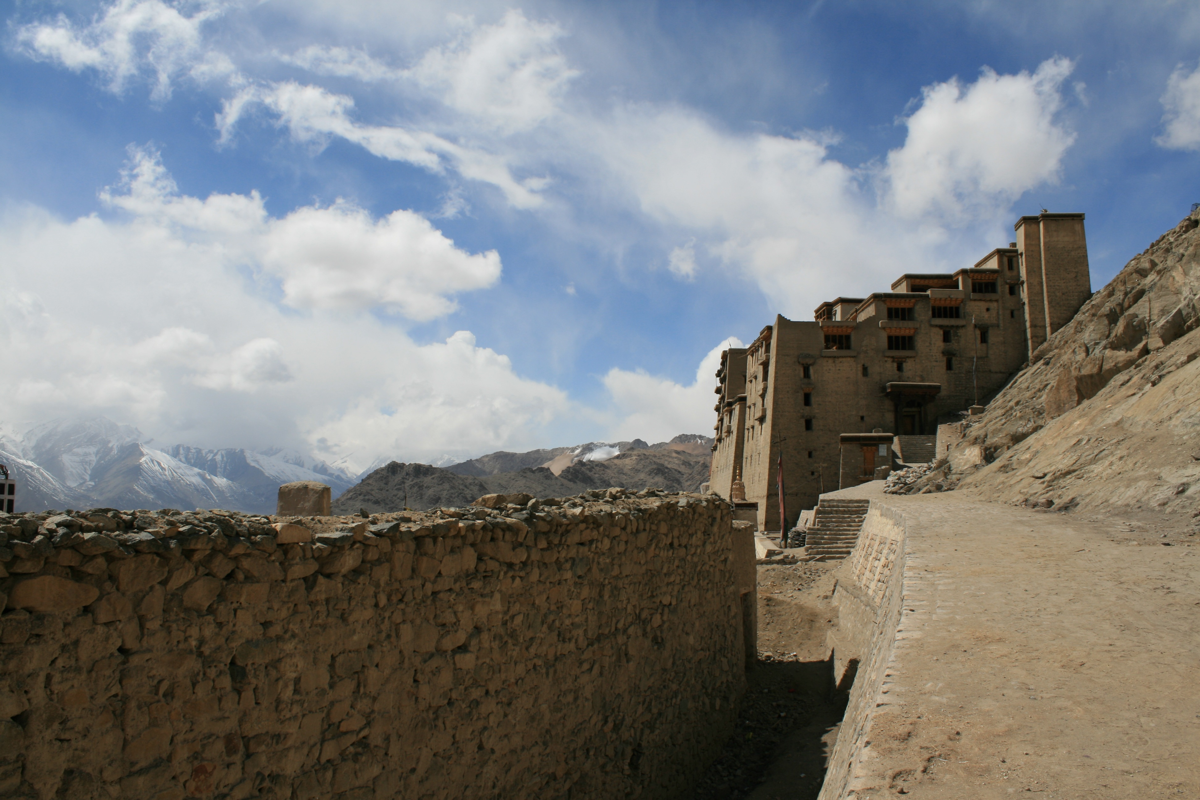 A view the Leh palace in the Ladakh region of Jammu and Kashmir, India.